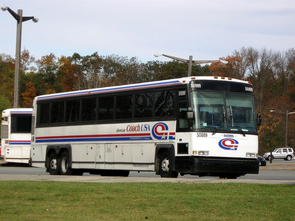 Coach USA #50889 lays over at the Newburgh Terminal in Newburgh, New York. The picture is taken from Route 17K facing the terminal.